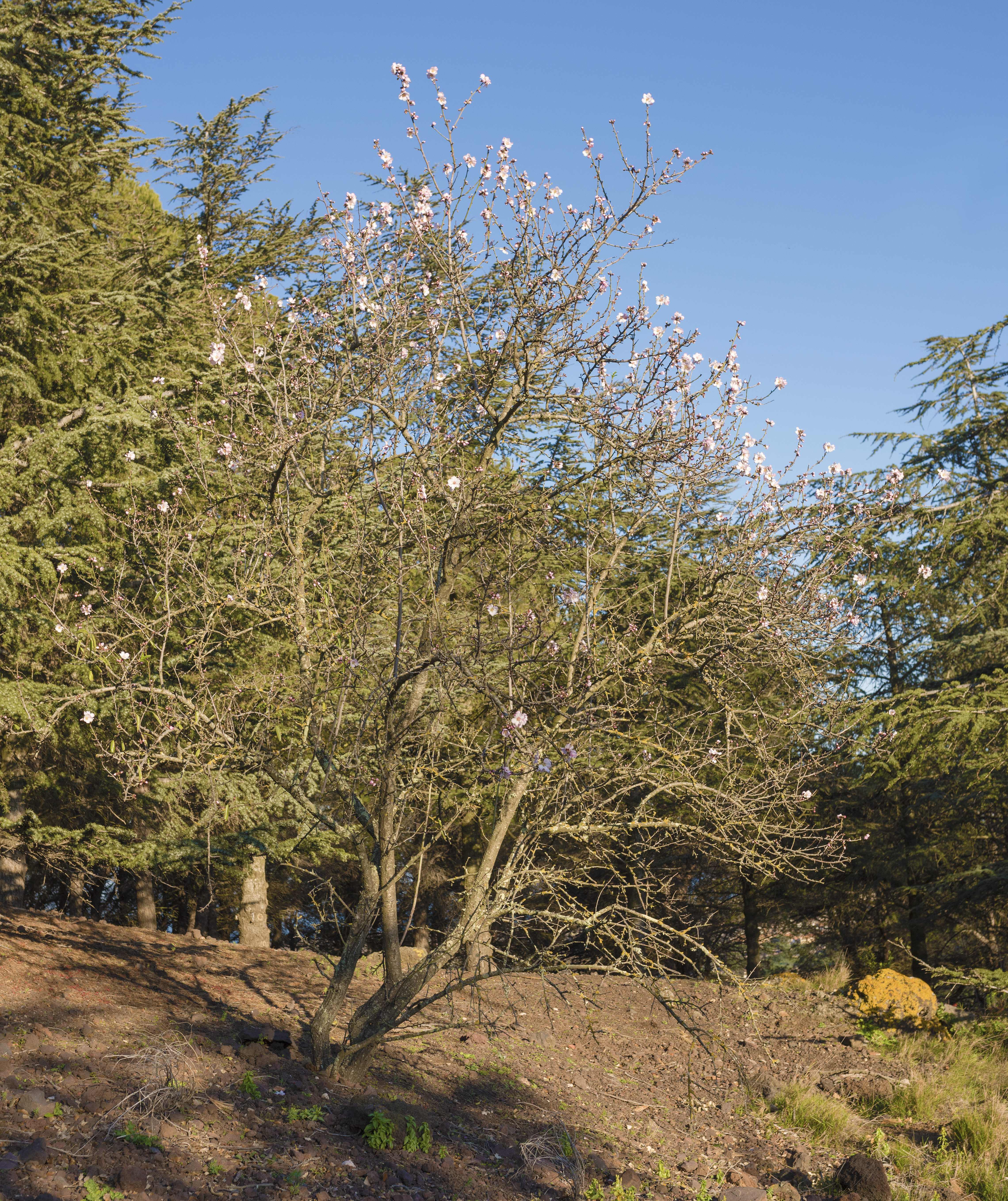 Prunus domestica, with its first flowers.